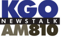 Logo for KGO News/Talk 810 from 2000 to 2011.